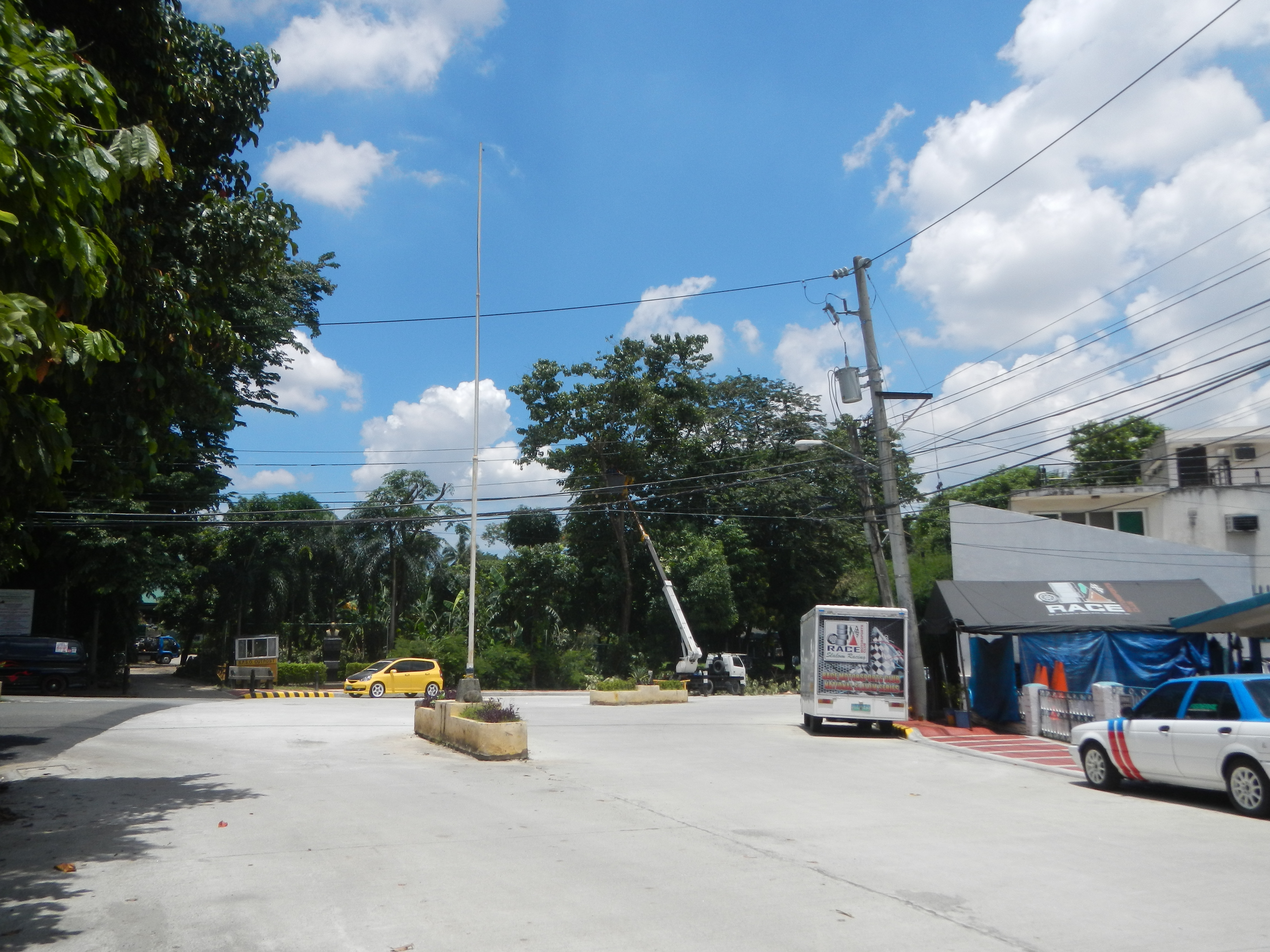 EDSA Legislative districts of Quezon City District I, Barangays of Quezon City Barangay West Triangle beside Philam Homes, Philam, beside Bungad District 1, Diliman, Quezon City; (along EDSA (road) Epifanio de los Santos Avenue (EDSA, Roosevelt Avenue-Quezon Avenue-Kamuning, Quezon City section) to Epifanio de los Santos Avenue (EDSA, Balintawak-Roosevelt Avenue, Quezon City section) to List of roads in Metro Manila (Note: Judge Florentino Floro, the owner, to repeat, Donor Florentino Floro of all these photos hereby donate gratuitously, freely and unconditionally all these photos to and for Wikimedia Commons, exclusively, for public use of the public domain, and again without any condition whatsoever).